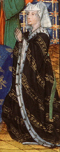 Blanche of Castile